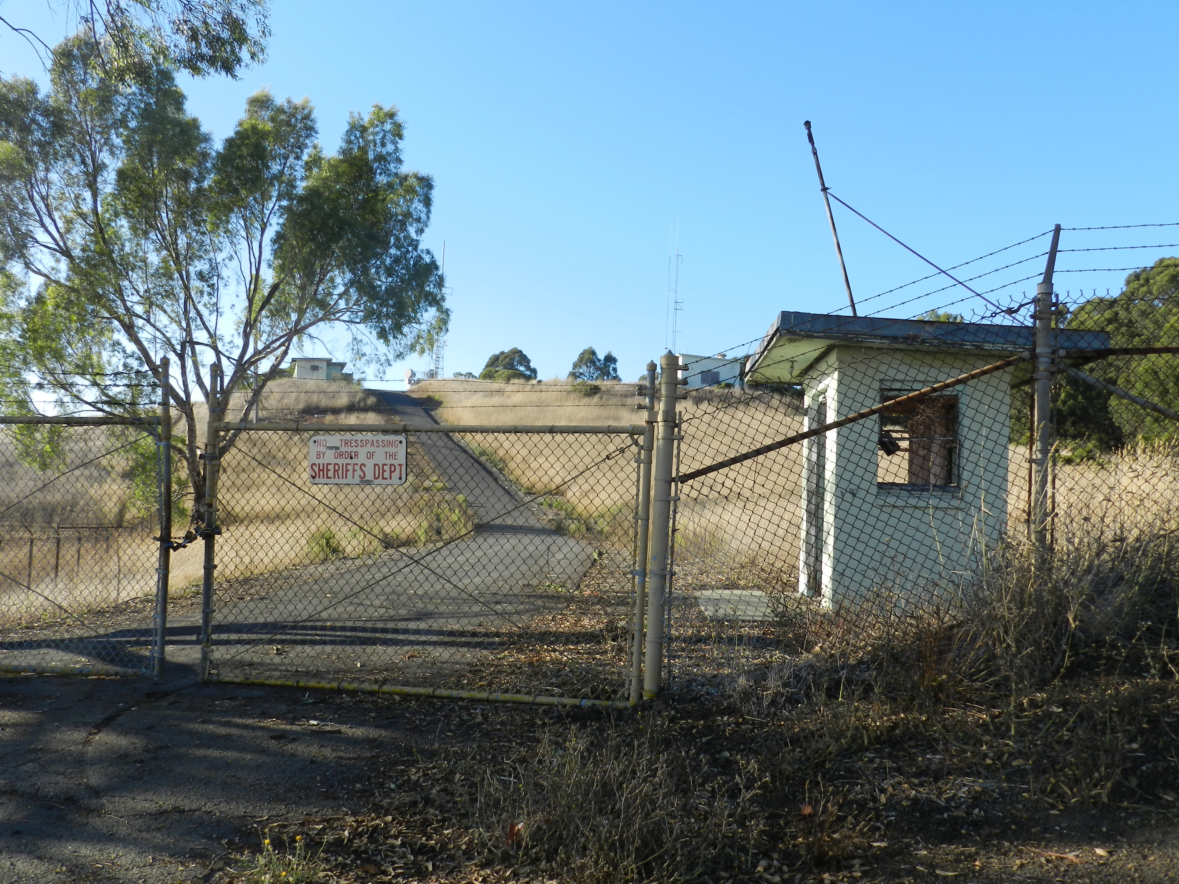 Former Nike Missile base, Fairmont Ridge Staging Area, Chabot Regional Park, San Leandro, California